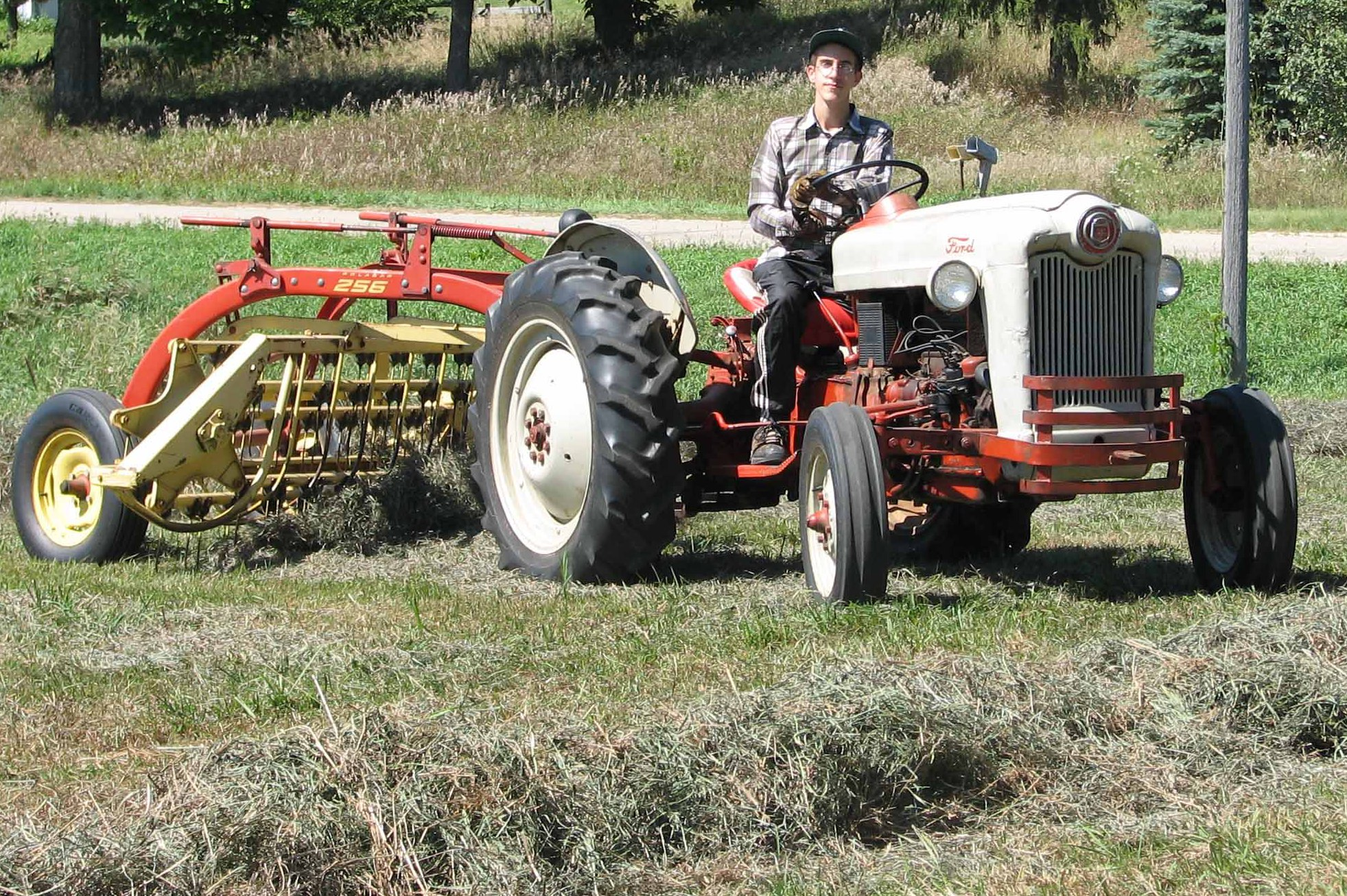 A 1953 Ford NAA ("Jubilee") pulling a New Holland 256 side delivery hay rake, raking grass hay.